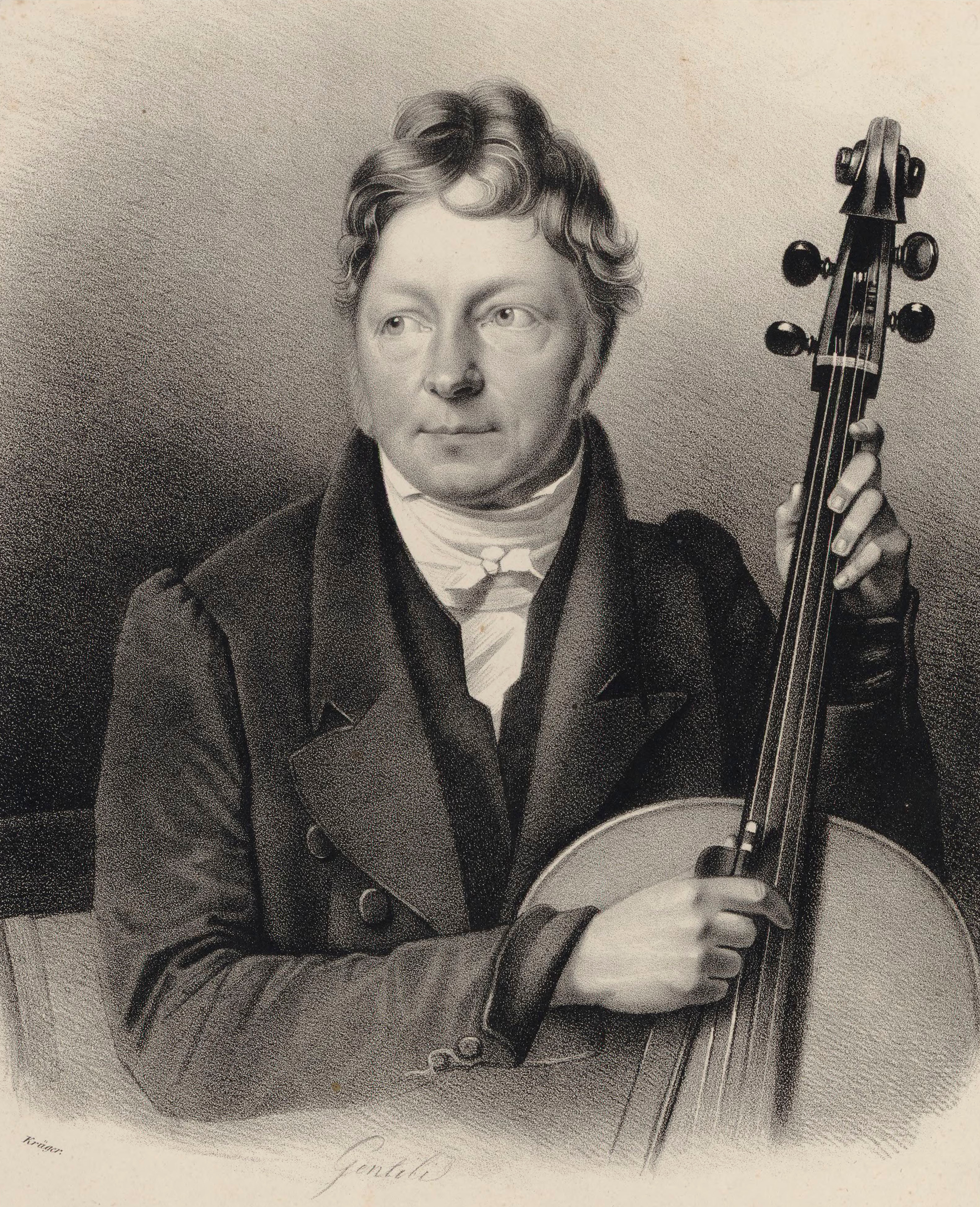 Depicted person: Bernhard Romberg